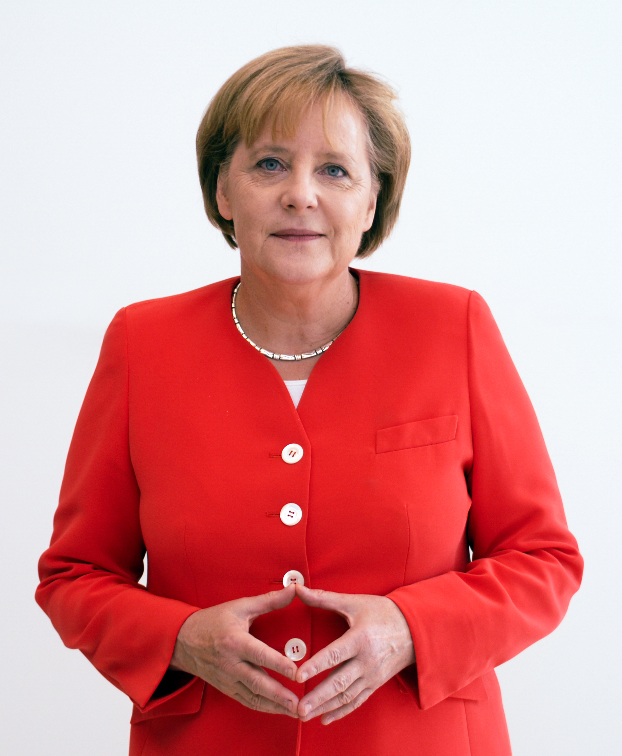 Angela Merkel, Chancellor of the Federal Republic of Germany, chairperson of the CDU